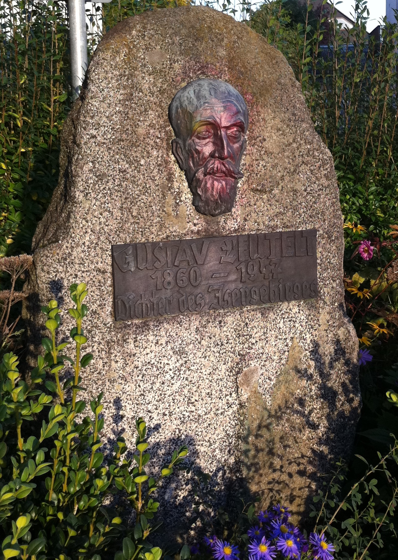 Gustav Leutelt monument in Wiesbaden. Taken with iphone4.